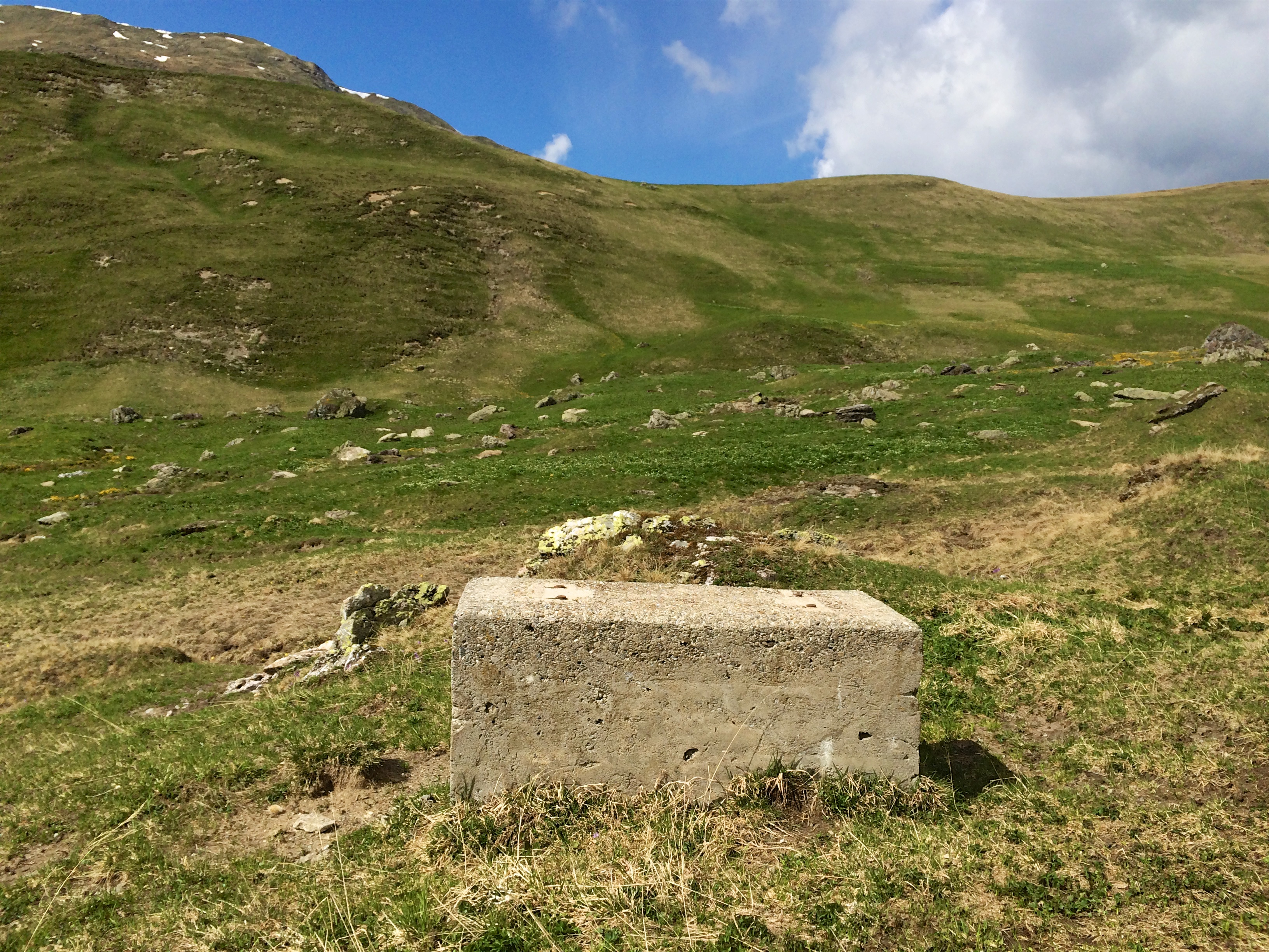 A pylon concrete foundation of the former ski lift "Barga" in Fondei, Langwies/Switzerland